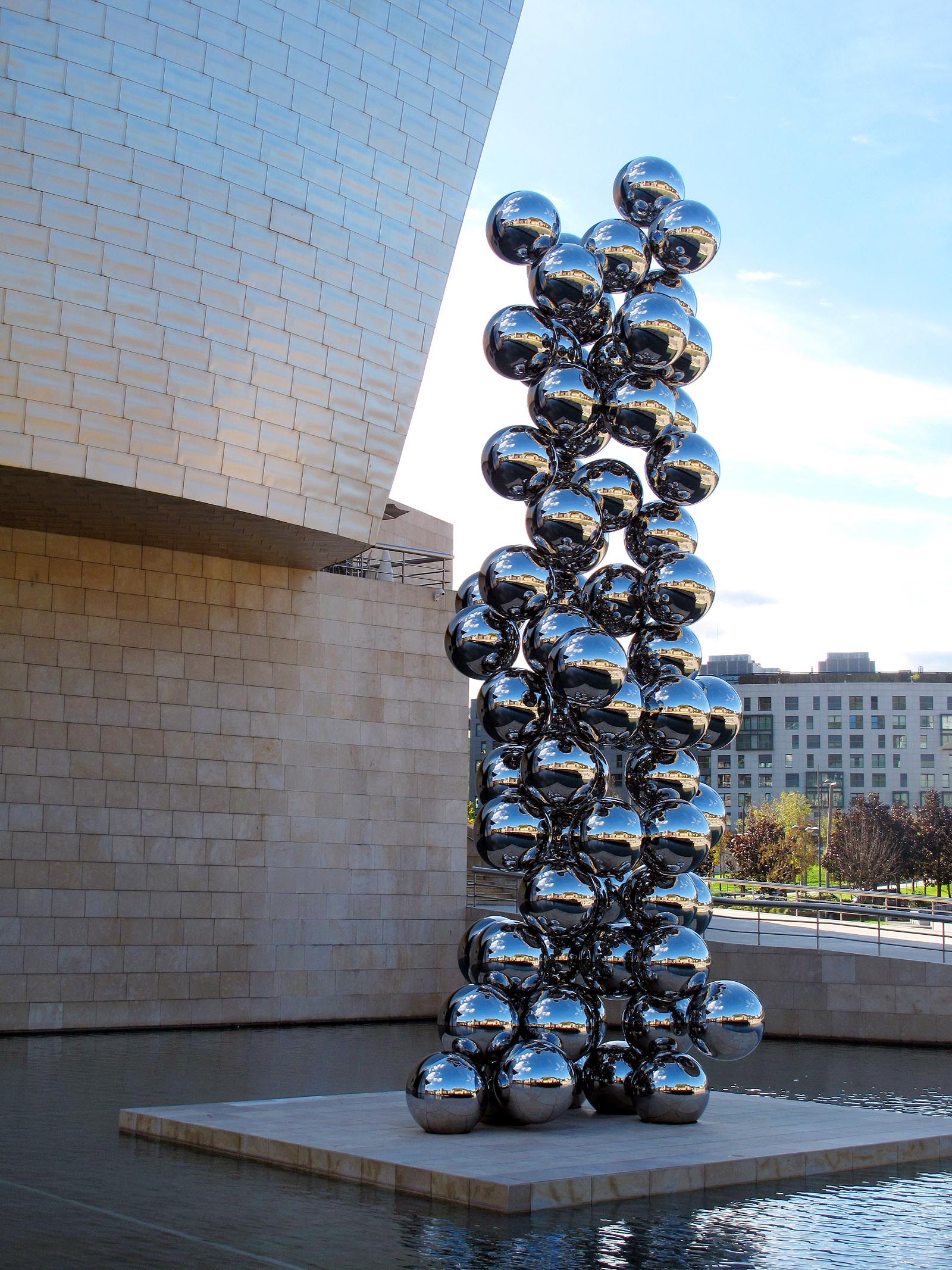 Anish Kapoor, Tall Tree and the Eye, 2009, - Spain, Bilbao, near Guggenheim Museum